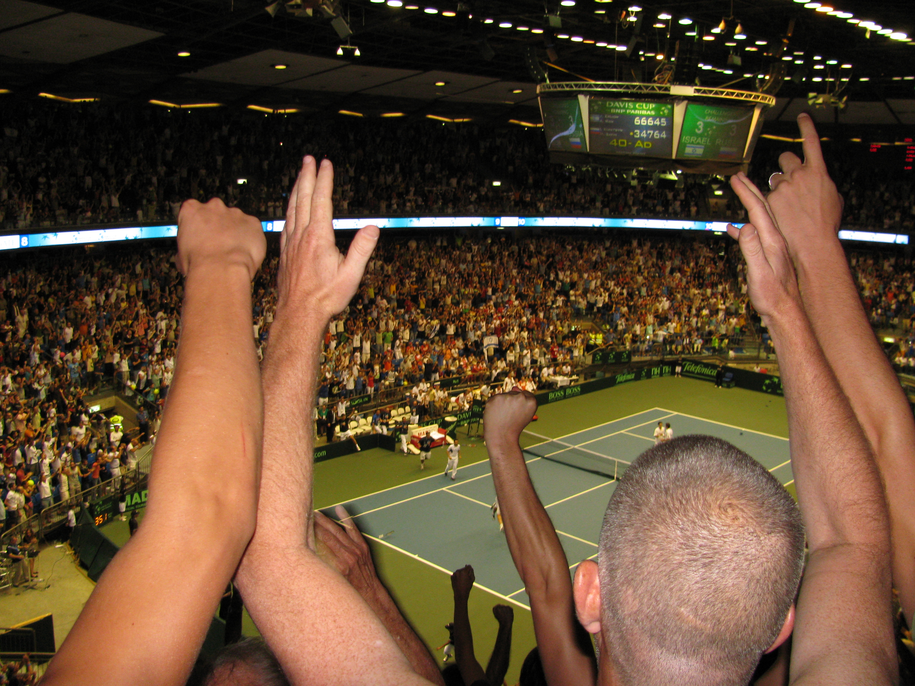 Israeli Fans Celebrating the Victory of Israel's Davis Cup team over Russia's team.